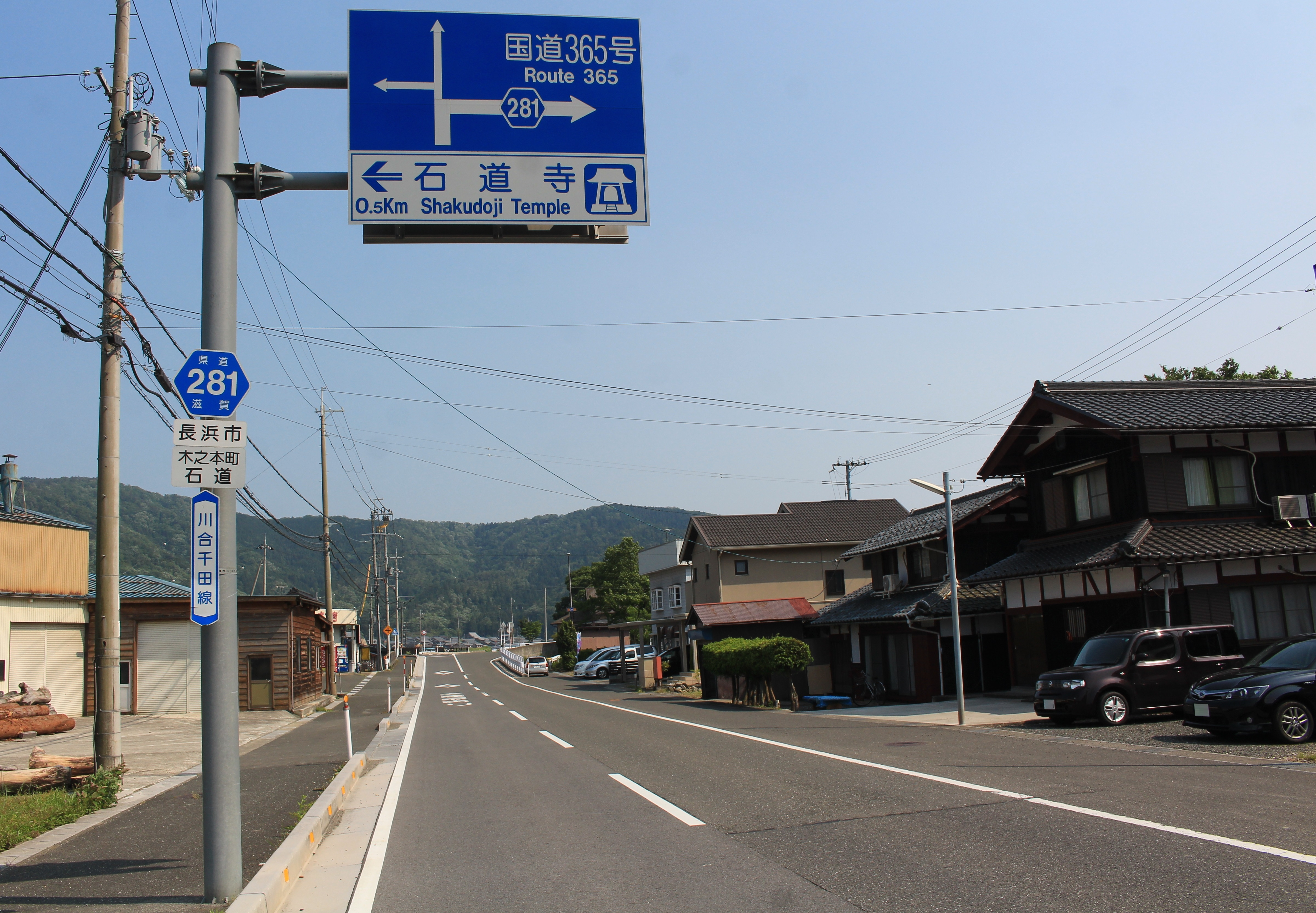 Shiga Prefectural Road Route 281, Shakudo, Kinomoto, Nagahama, Shiga prefecture, Japan.